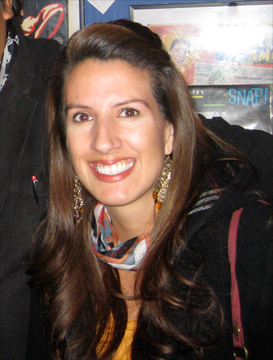 Jessica Metcalfe, Turtle Mountain Chippewa, editor, writer, and academic